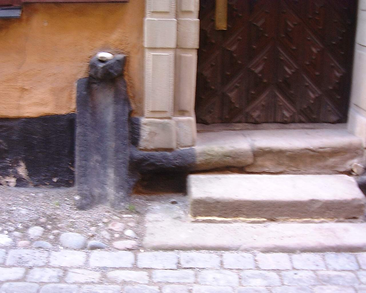 A so called trumba (e.g. a medieval waste pipe) at 2, Nygränd, Gamla stan, Stockholm.